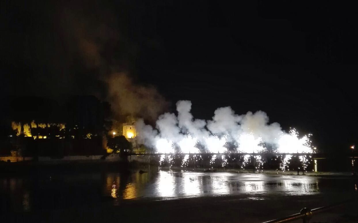 Ariticial fires, santa cruz, oleiros